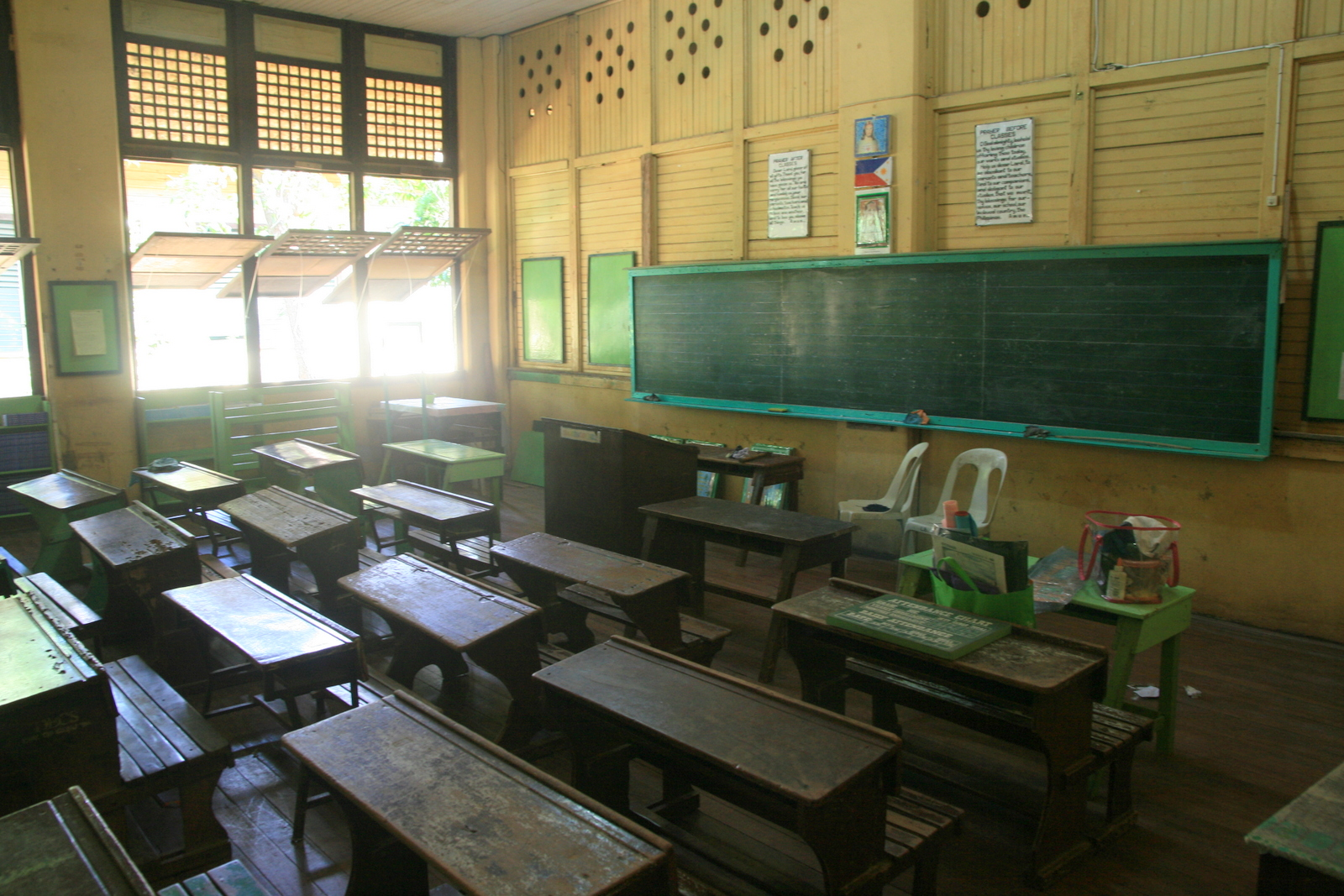 Bantayan: Central School interior